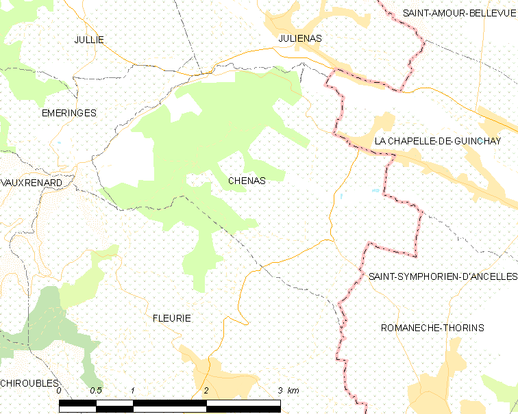 Map of French municipality